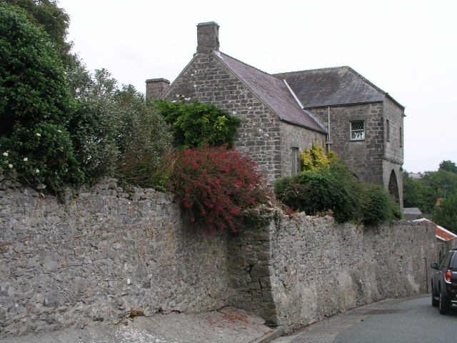 The Old Hall, Monkton now a Landmark Trust property.